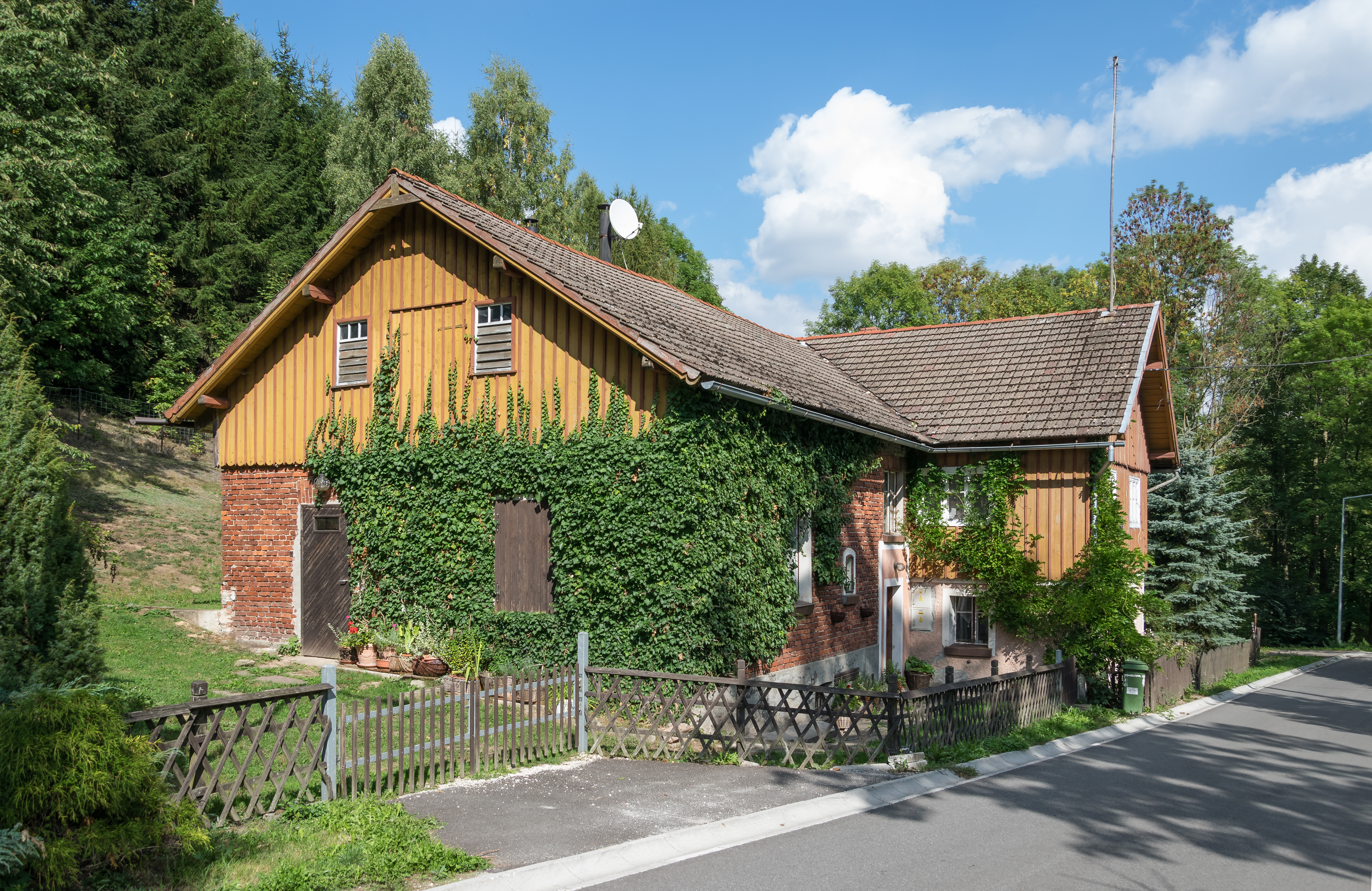 House No. 9 in Kamieńczyk Wikidata has entry Q30048883 with data related to this item.